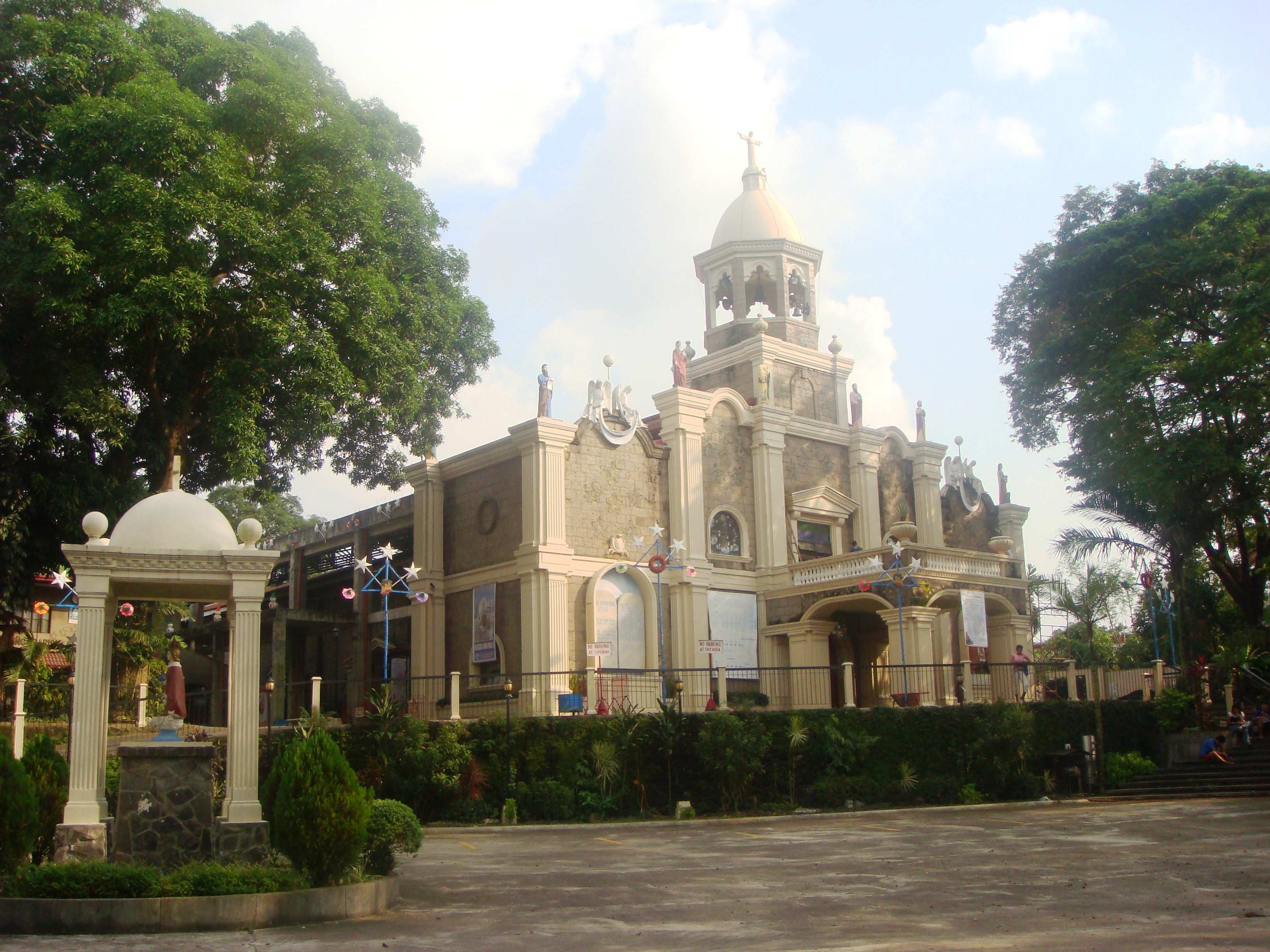 Sto. Nino de Bustos Church, Sto. Nino de Bustos Church Vicariate of St. Augustine of Hippo – Baliuag, Bulacan, Roman Catholic Diocese of Malolos, Poblacion, Bustos, Bulacan